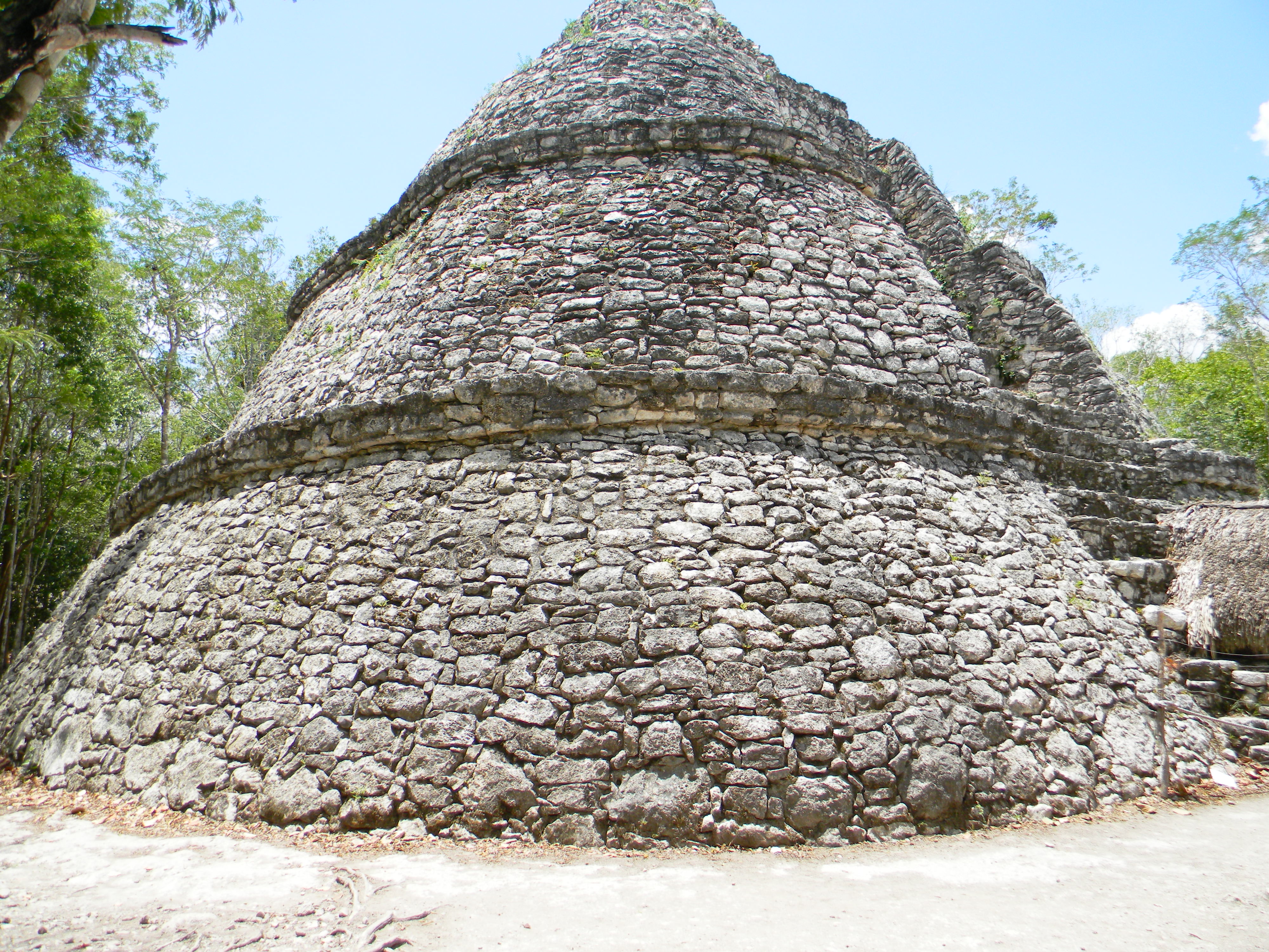 Cobá - Pyramide Xai-bé, view from back